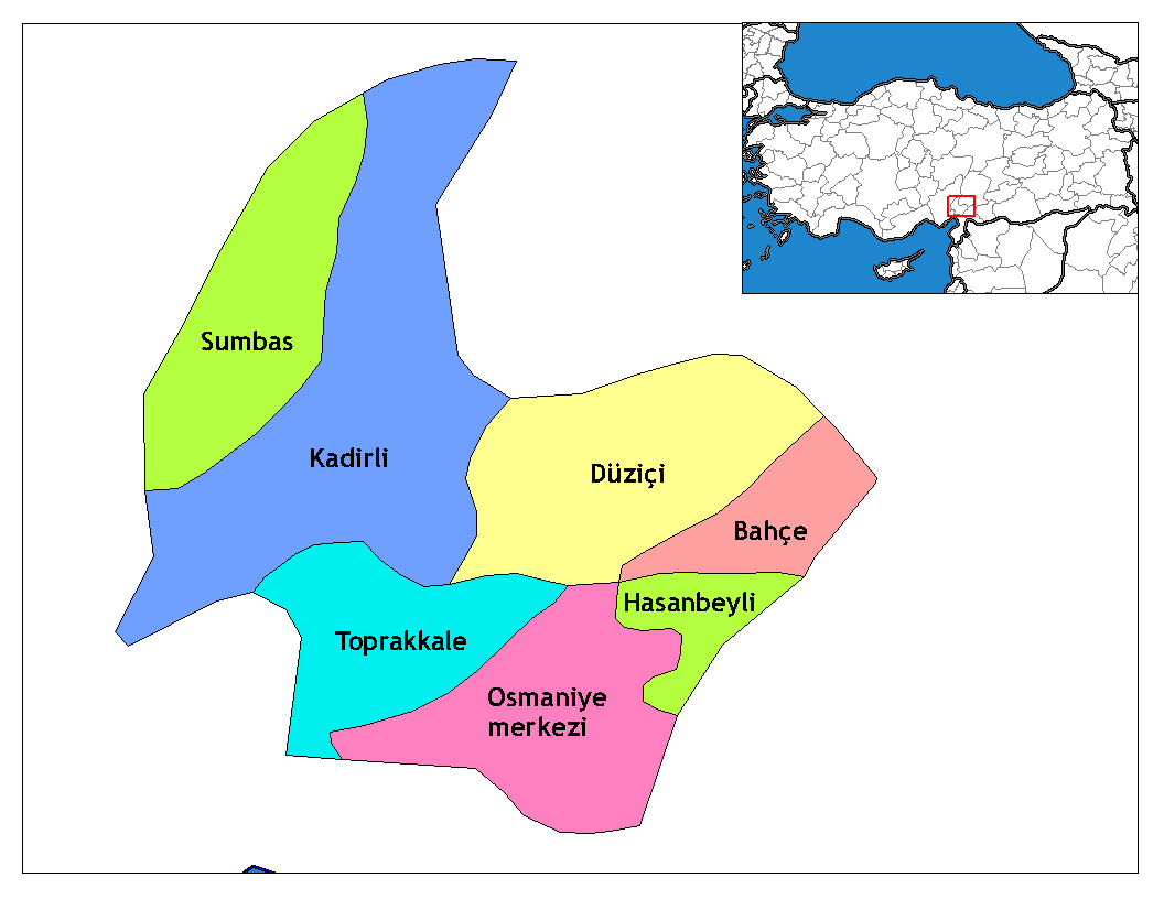 Map of the districts of Osmaniye province in Turkey. Created by Rarelibra 17:11, 4 December 2006 (UTC) for public domain use, using MapInfo Professional v8.5 and various mapping resources. Edited by One Homo Sapiens Corrected text where İ,Ş,ı,ğ,or ş occurs in name. Source: [statoids-com]. Increased font size and enhanced color differences among adjacent districts.